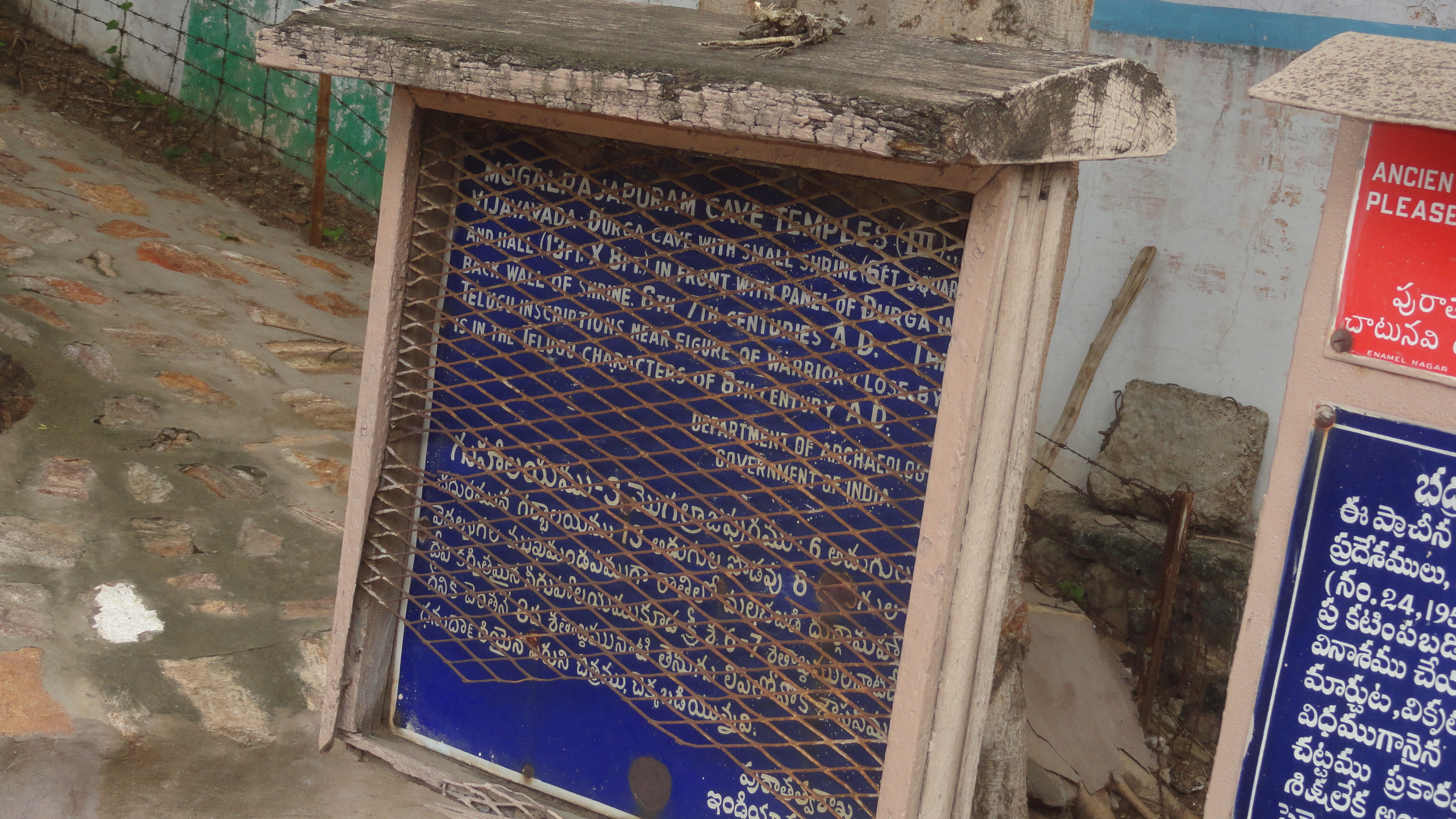 mogalraj puram caves.